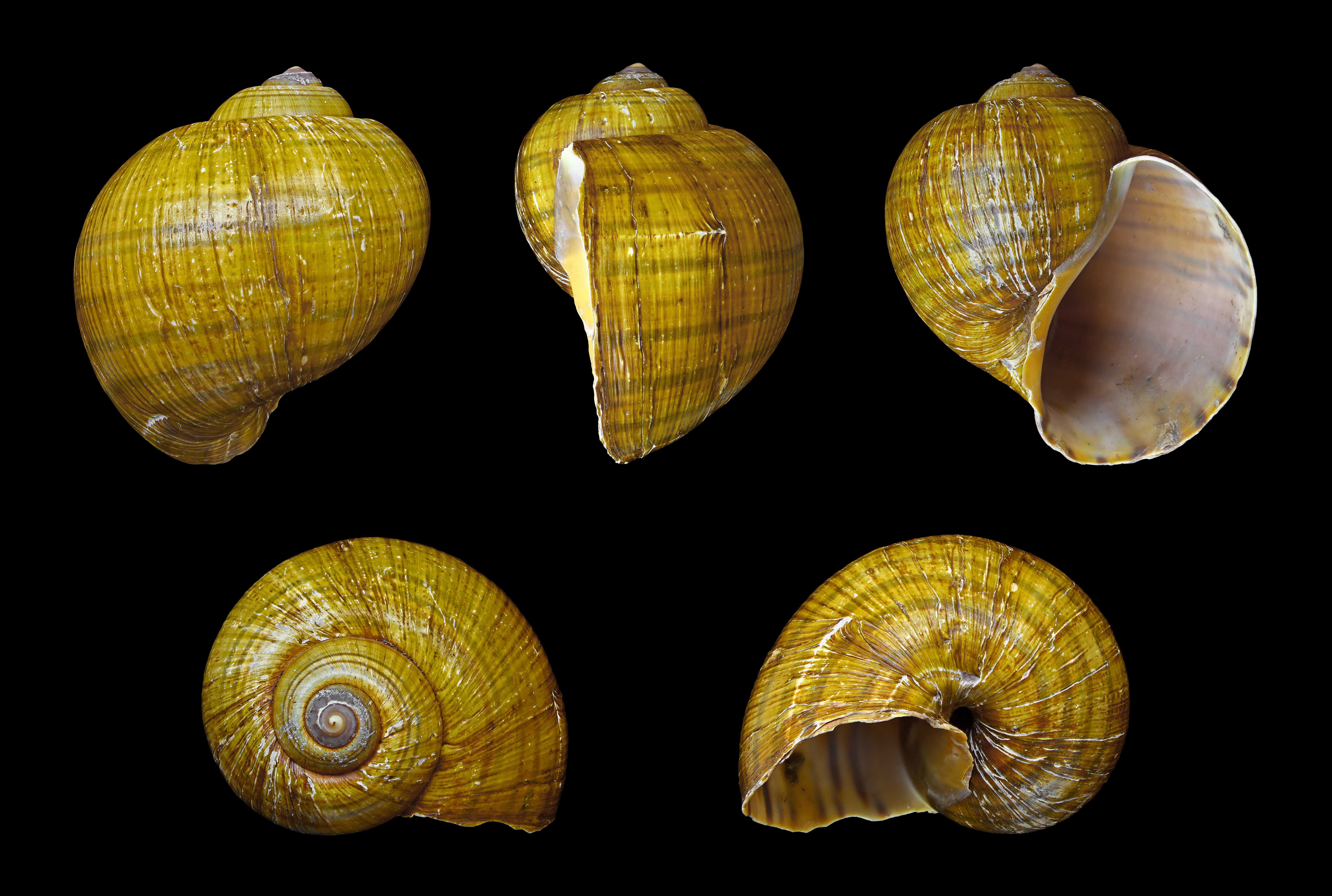 Pomacea canaliculata, Ampullariidae, Golden Apple Snail; Diameter 8 cm; native to tropical and subtropical South America, today widespread in tropical and subtropical regions, also kept in aquariums (the figured shell is from an aquarium); Shell of own collection, therefore not geocoded.